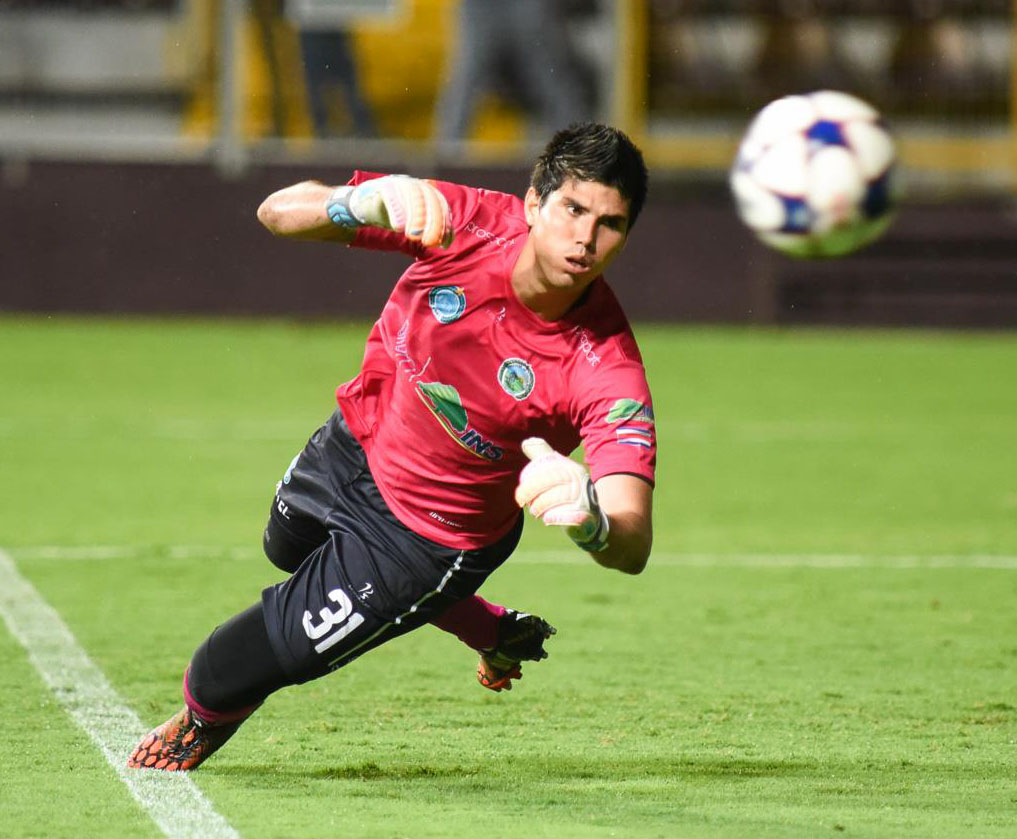 Aaron Cruz playing for CF Universidad de Costa Rica in September 2016.